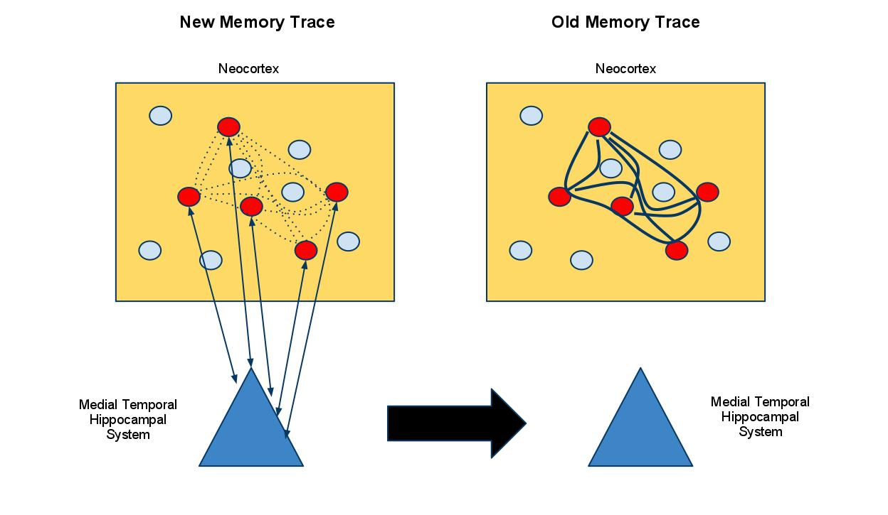 A representation of the standard model of systems consolidation. Initially, the memory trace (features of the experience represented by red circles) is weak in the neocortex and is reliant on its connections to the medial temporal hippocampal system (MTH) for retrieval. Over time, an intrinsic process results in the strengthening of the connections between memory trace representations in the neocortex. Since the connections are consolidated, the memory can now be retrieved without the hippocampus.